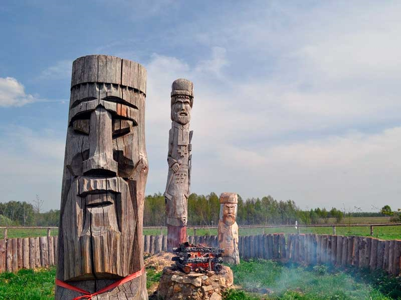 Outdoors shrine of the Temple of Svarozhich's Fire belonging to the Union of Slavic Rodnover Communities (Союз Славянских Общин Славянской Родной Веры), located in Krasotinka, Kaluga, Russia.